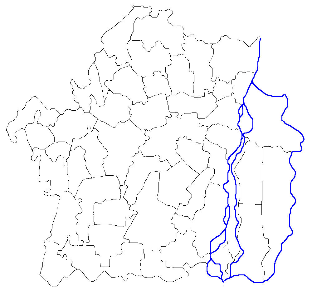 Location map of Brăila County, Romania with limits of communes